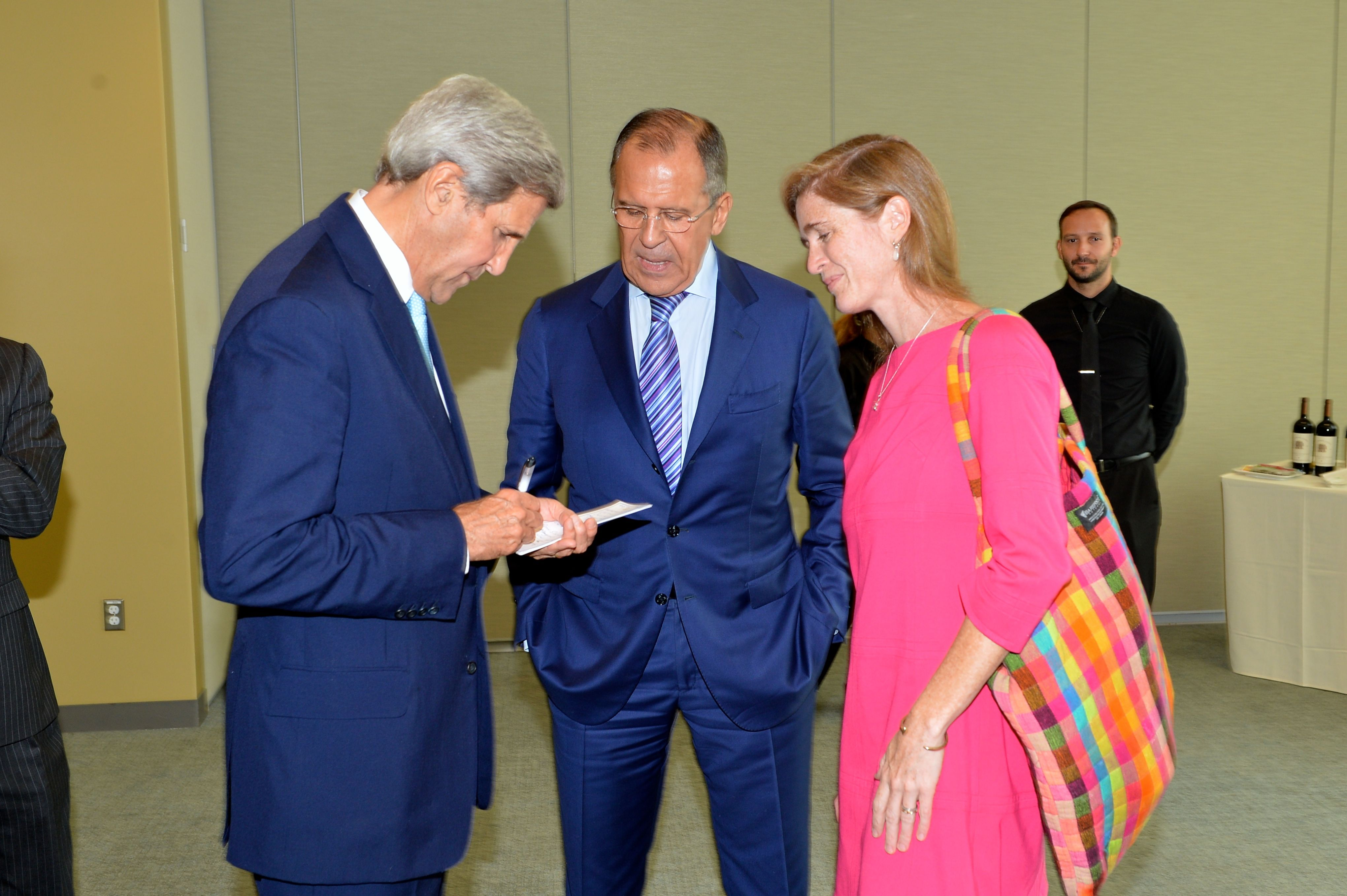 U.S. Secretary of State John Kerry and Ambassador Samantha Power, U.S. Permanent Representative to the United Nations, chat with Russian Foreign Minister Lavrov before a P5+1 lunch hosted by UN Secretary-General Ban Ki-moon at the United Nations Headquarters in New York, New York, on September 29, 2015. [State Department photo/ Public Domain]